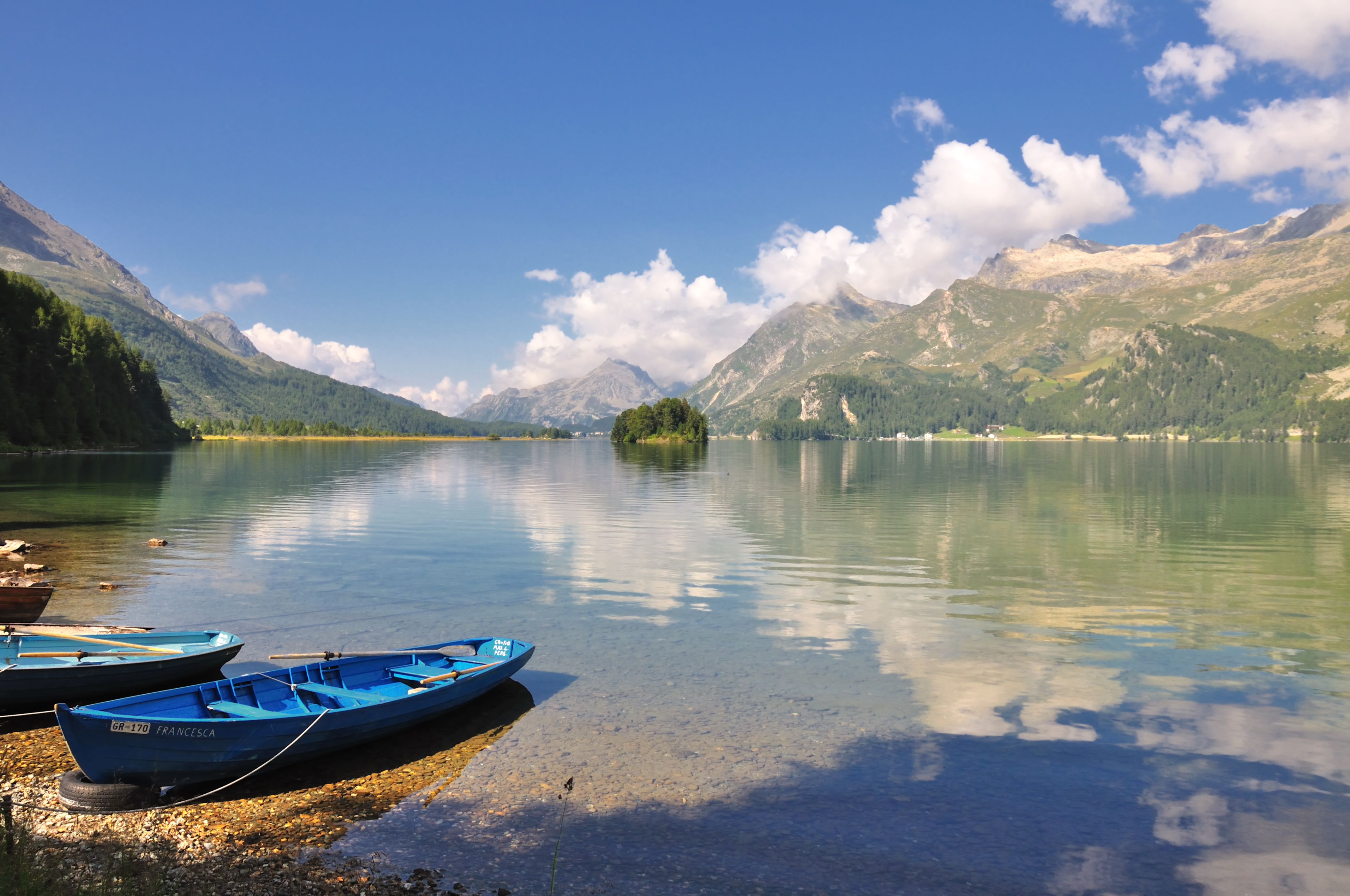 Lake Sils, in Graubünden, Swizerland.